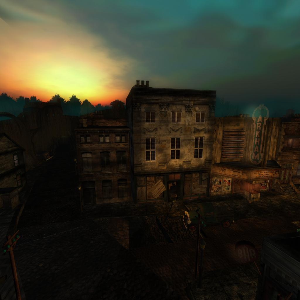 Innsmouth, a dark New England Coastal Town 1930, HP Lovecraft, Innsmouth (158, 151, 24) - Moderate Lovecraft, vintage, horror, lighthouse, Chtulhu, Dagon, sewers, cannery, opera, movie house, swamp Posted by Second Life Resident Torley Linden. Visit Innsmouth.